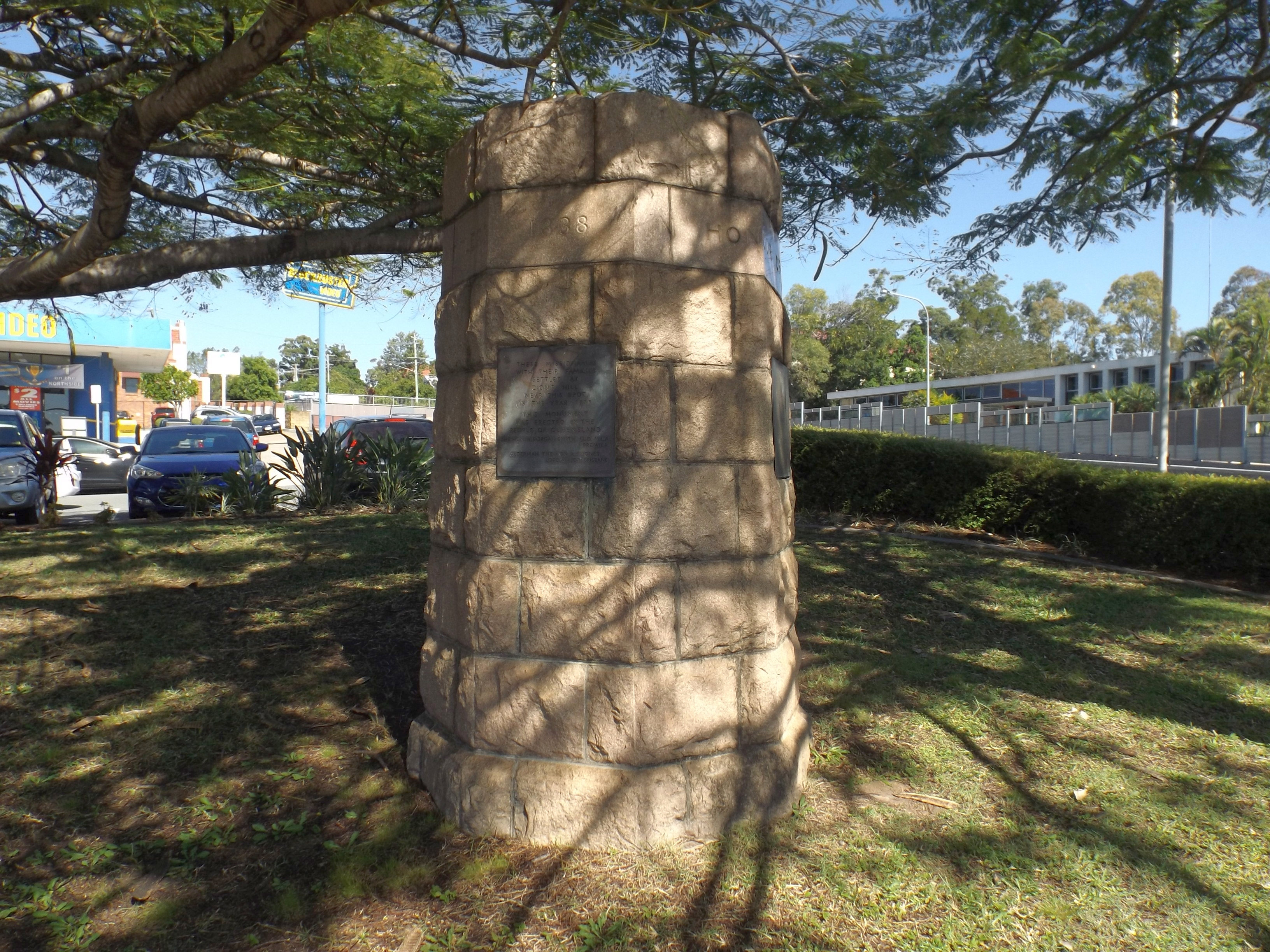 Photo of the First Free Settlers Monument at Nundah, Brisbane, Queensland, Australia.